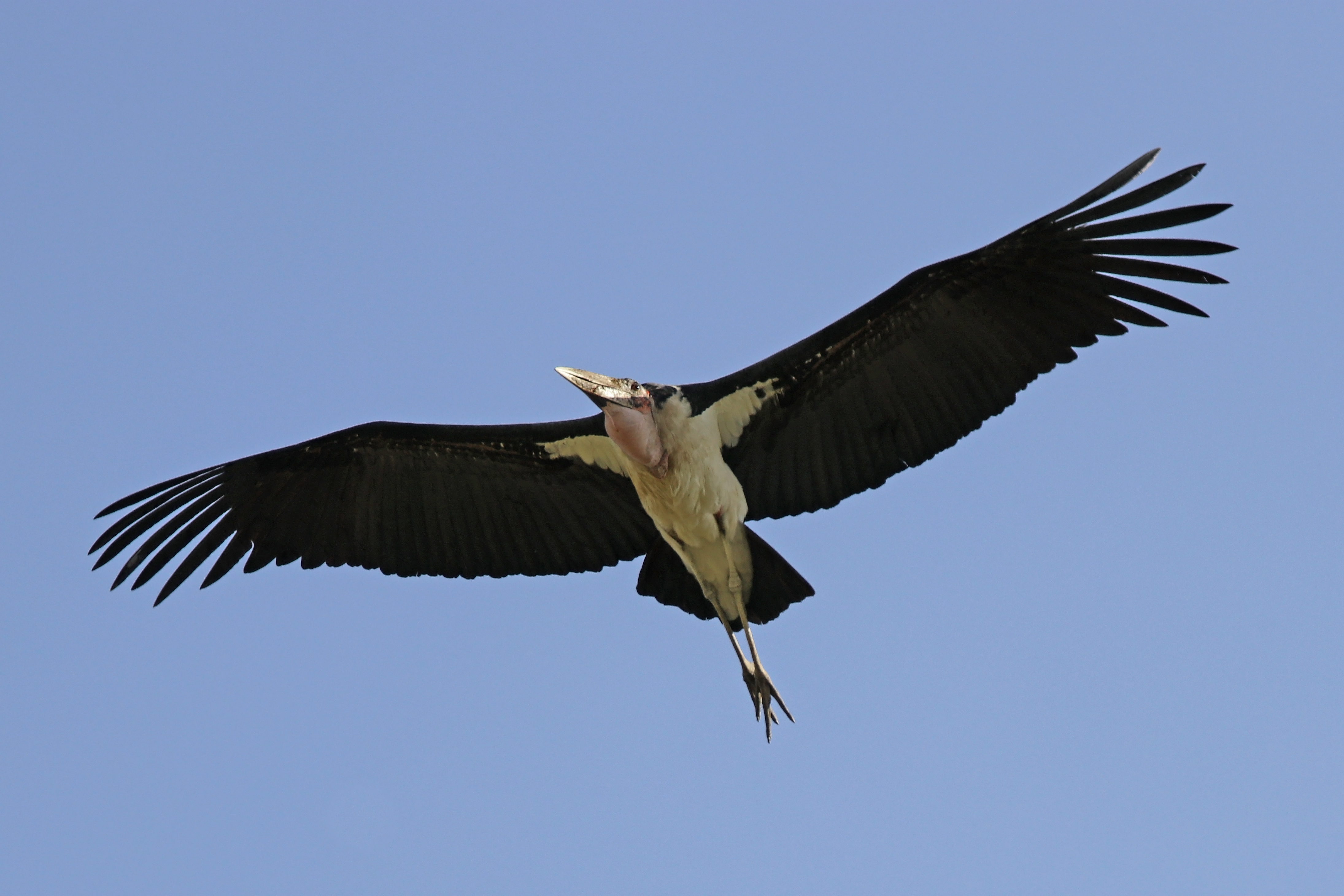 Marabou stork (Leptoptilos crumenifer), Lake Ziway, Ethiopia